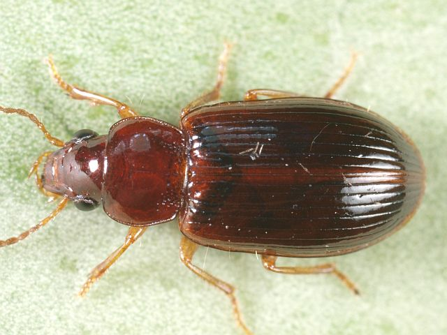 Bradycellus harpalinus, location: The Netherlands - Nuenen - Nuenens Broek